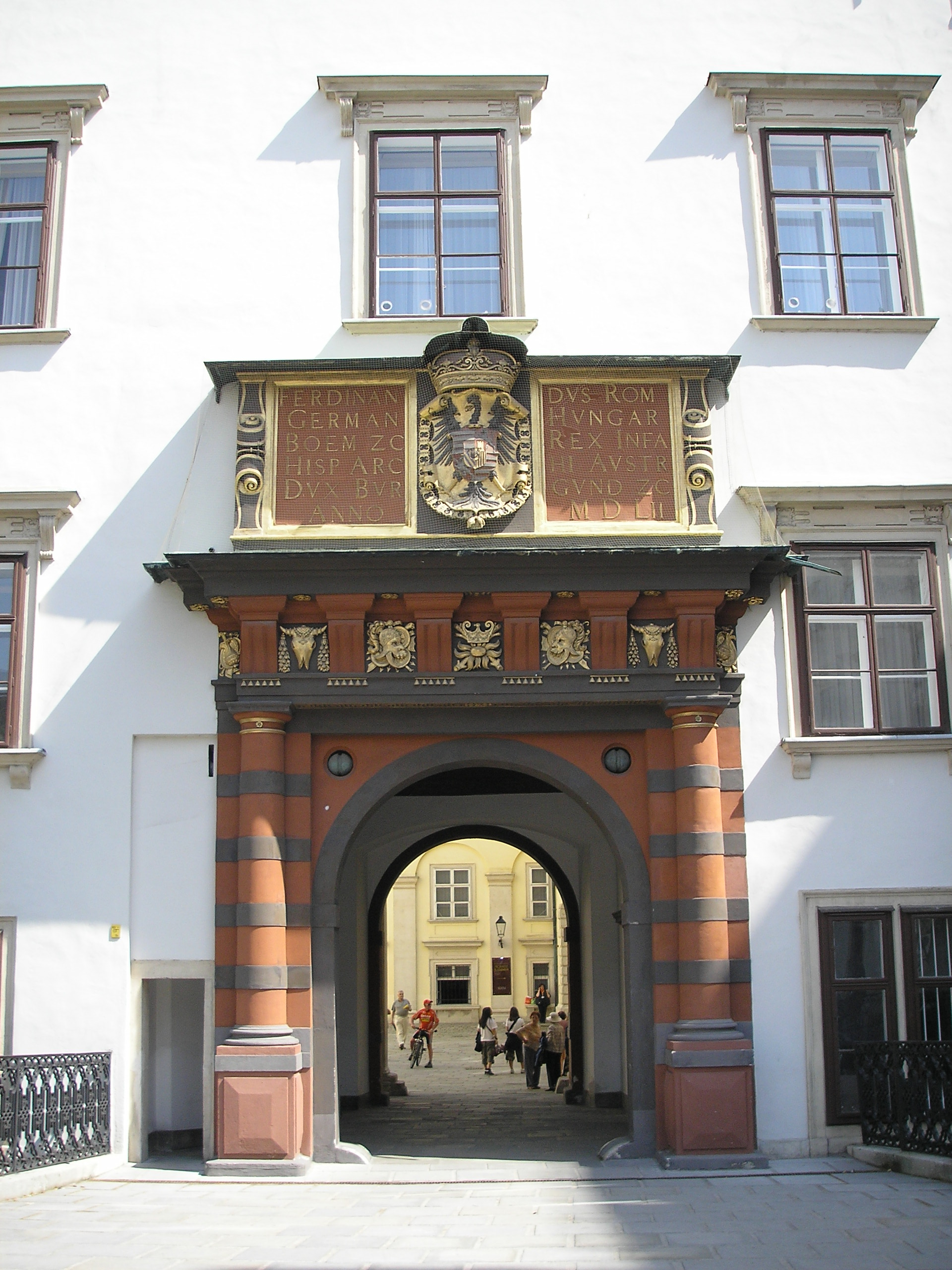 The Schweizertor (Swiss Gate) in the Hofburg Imperial Palace in Vienna.